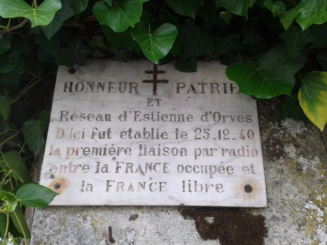 First communication between free France and occupied France by Honoré d'Estienne d'Orves